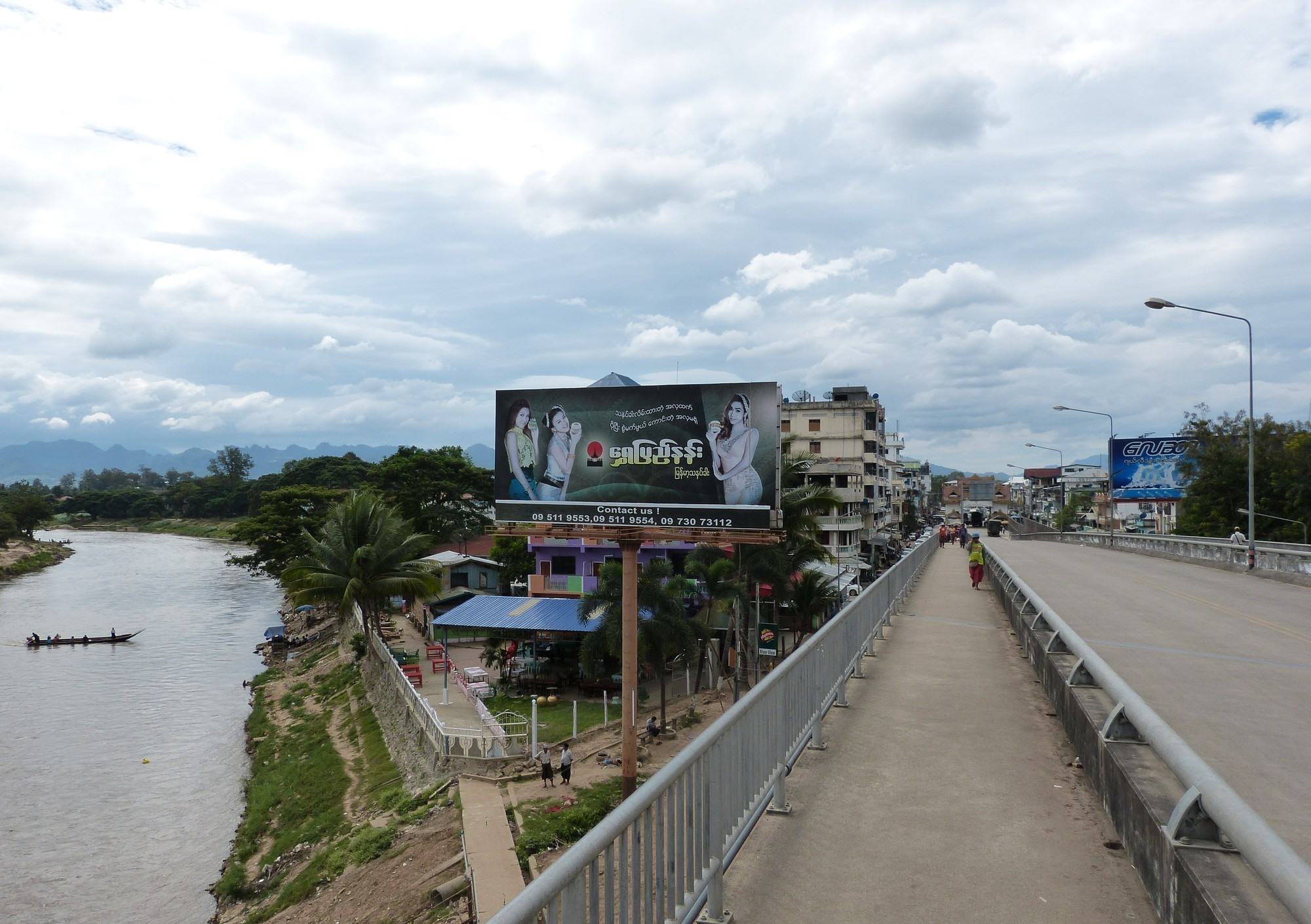 Myawaddy, Myanmar (Burma)